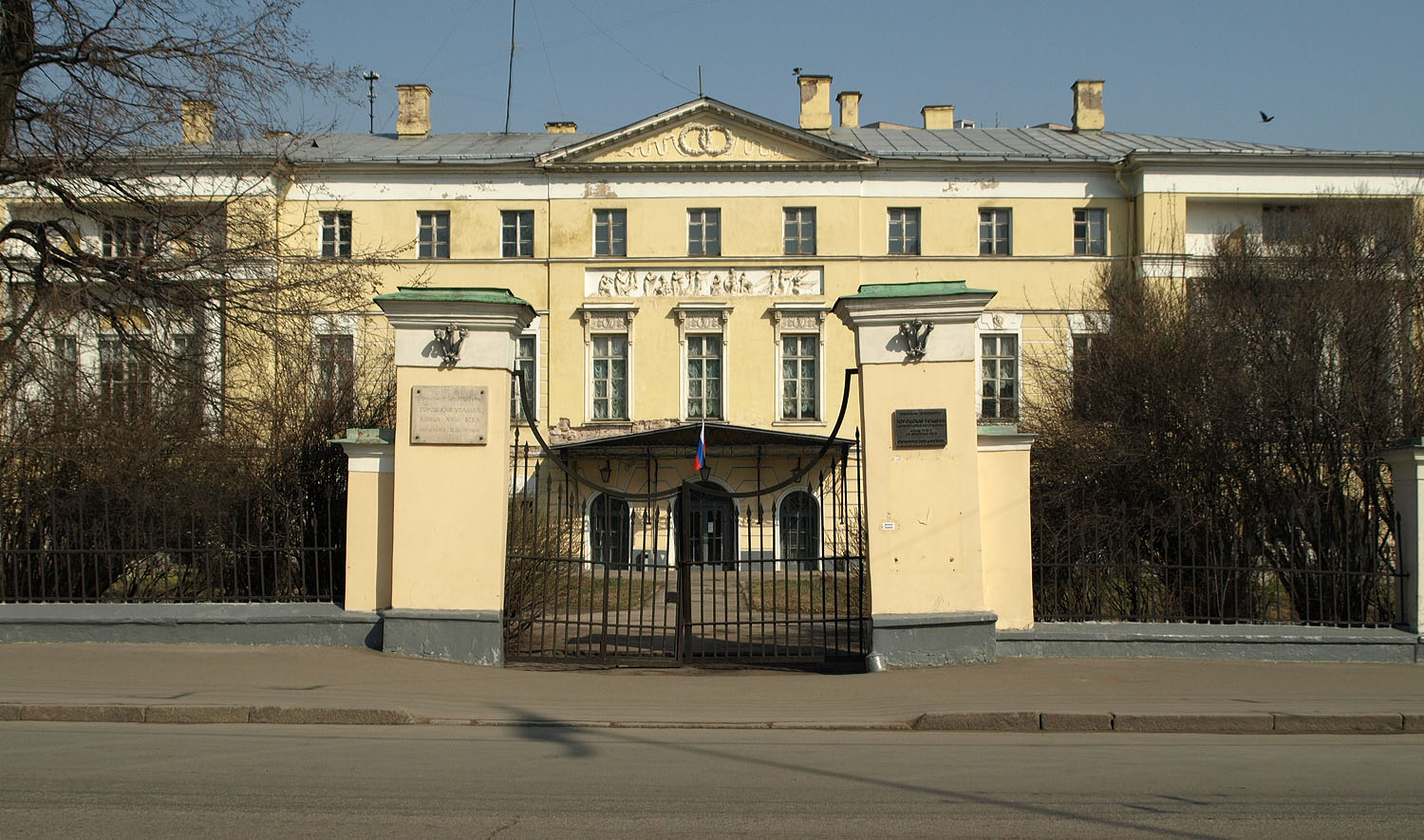 Count Bobrinsky House - main building. 12, Malaya Nikitskaya Street, Moscow